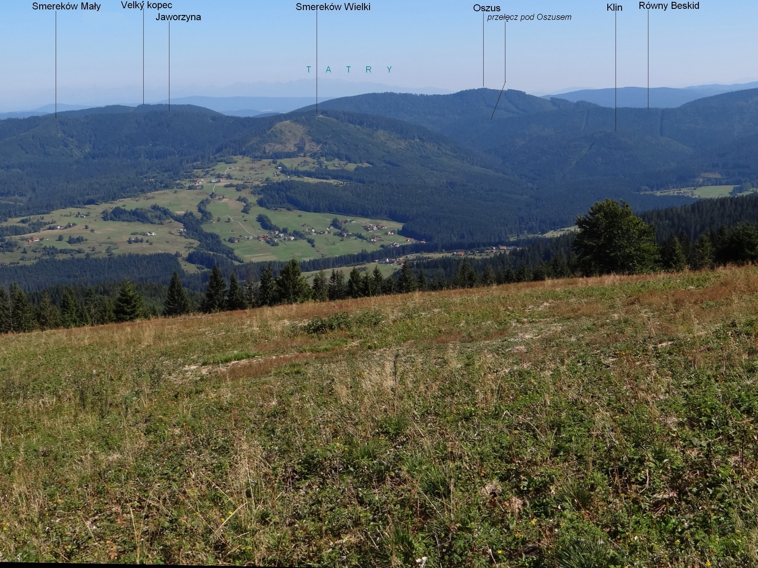 The names of tops on photo are incorrect?